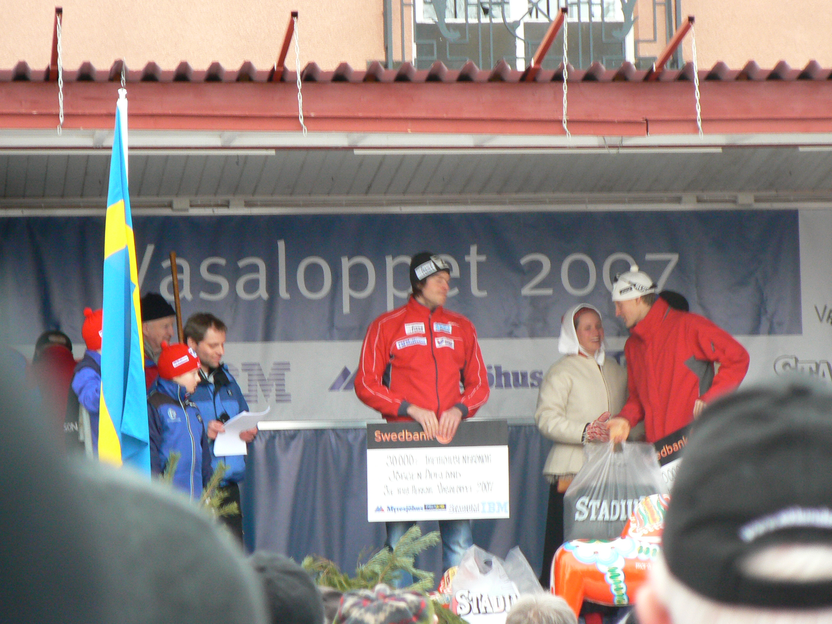 Norwegian skier Jørgen Aukland (in the middle) receiving the price for third place in Vasaloppet 2007. Photo by Skvattram 2007-03-04.